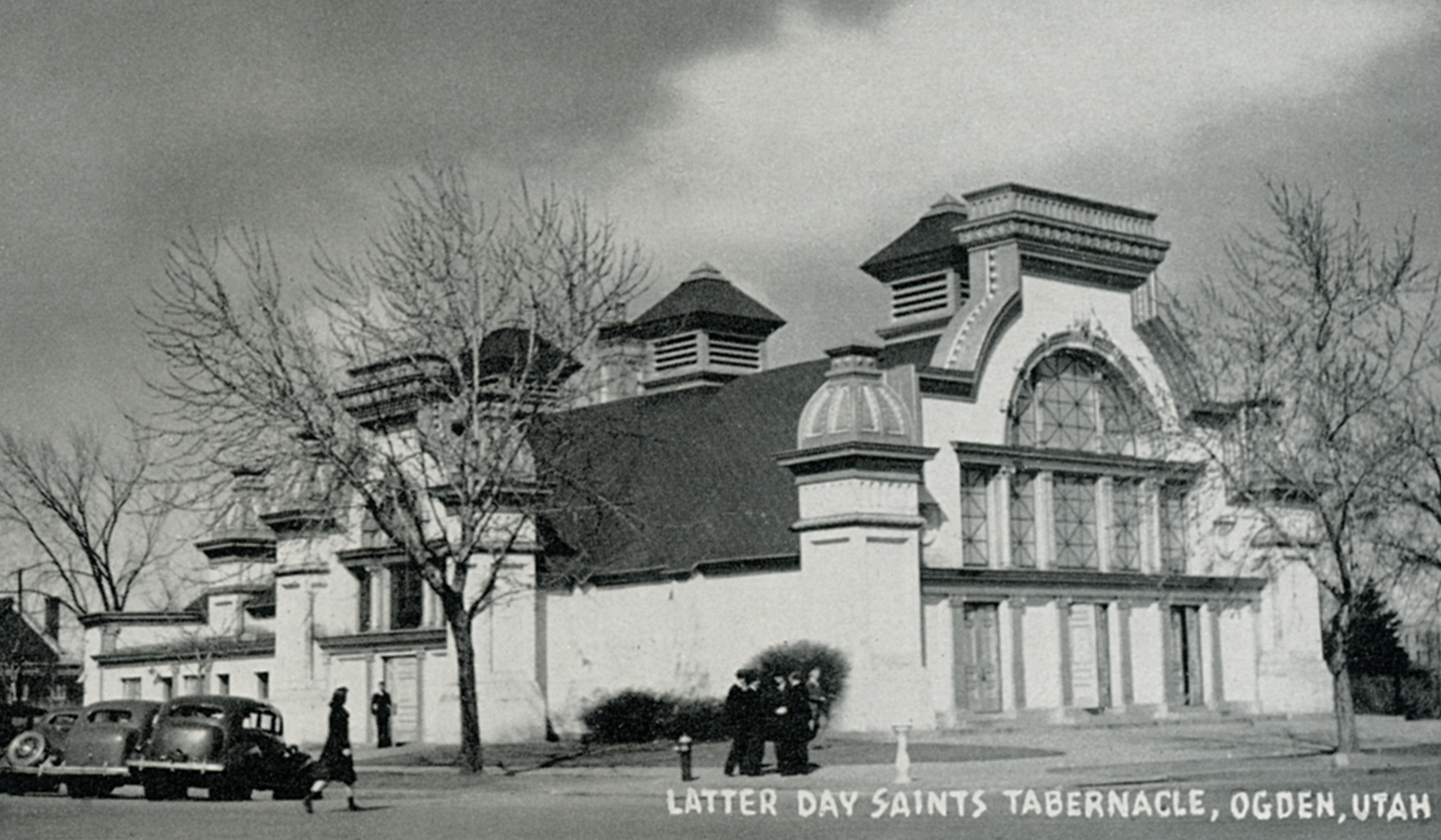 The Weber Stake Tabernacle, later known as the Ogden Pioneer Tabernacle. This photograph was printed on a postcard published by Ogden News Company, circa 1940. The tabernacle was originally built in the 1850s; the cupolas and decorative entrances were added in 1896. The building was razed in 1971. Was located on the corner of 22nd Street and Washington Boulevard in Ogden, Utah.